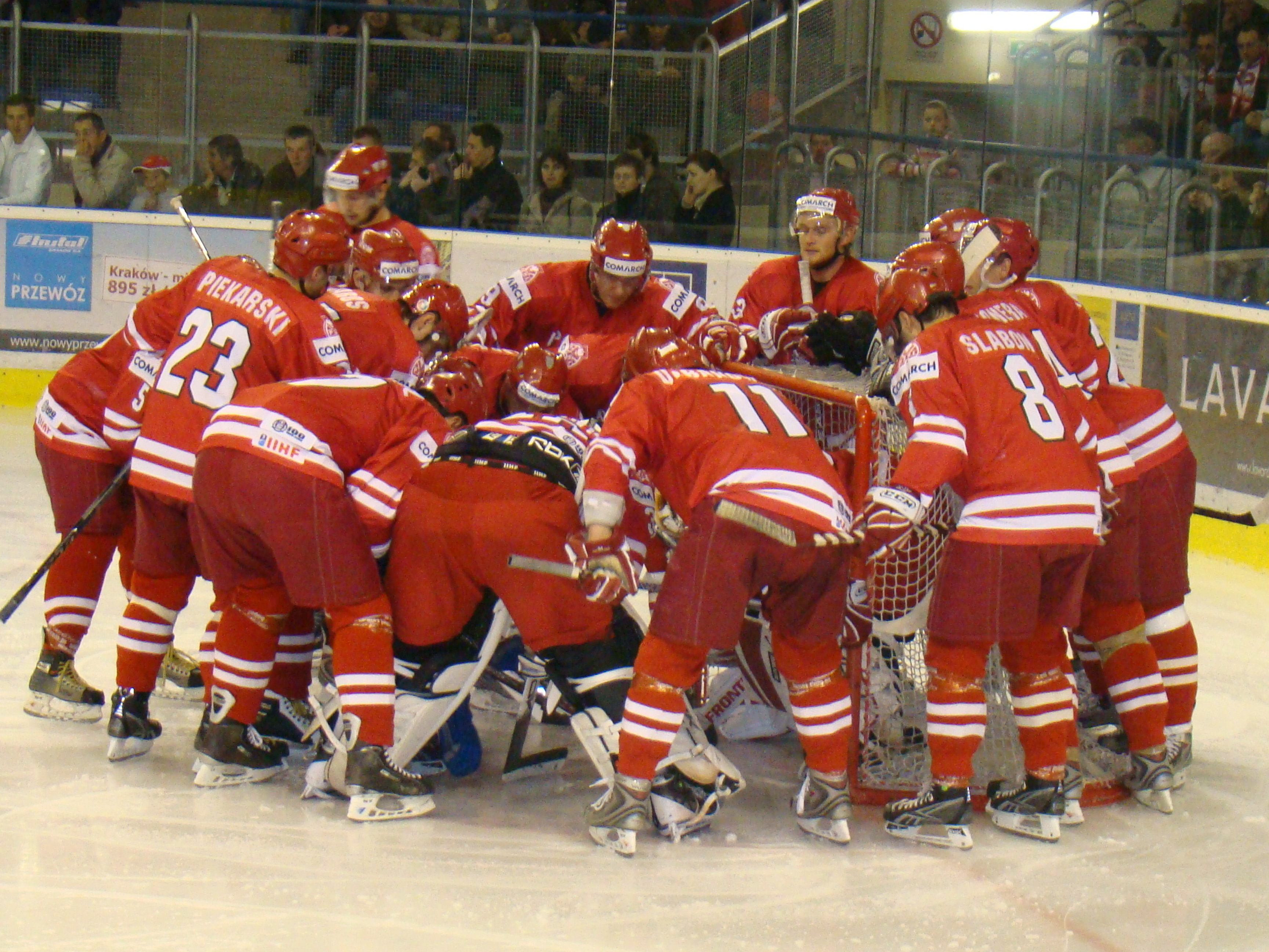 Poland national ice hockey team. Sanok Nov. 2008